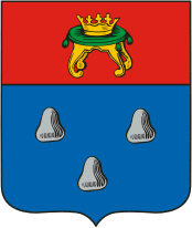 Kashin (Tver oblast), coat of arms (1780)